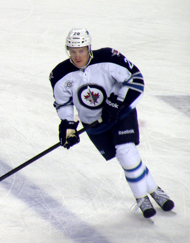 Winnipeg Jets forward Anti Miettinen prior to a National Hockey League game against the Calgary Flames.